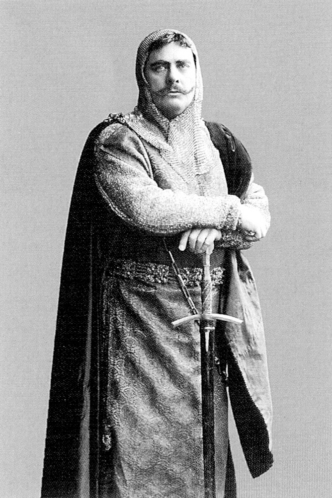 Theatre actor Max Devrient as "Zawisch" at the Burgtheater in Vienna